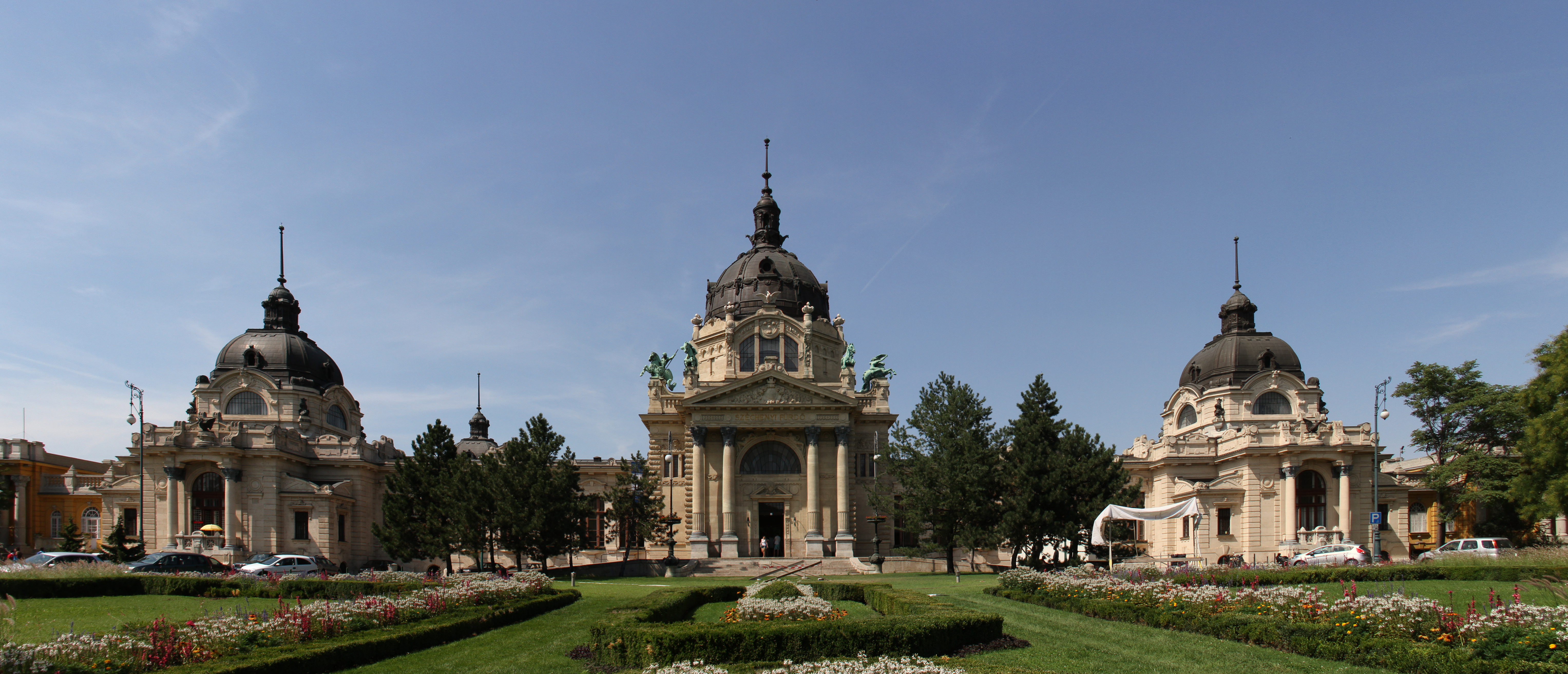 The Széchenyi thermal bath in Budapest, Hungary.